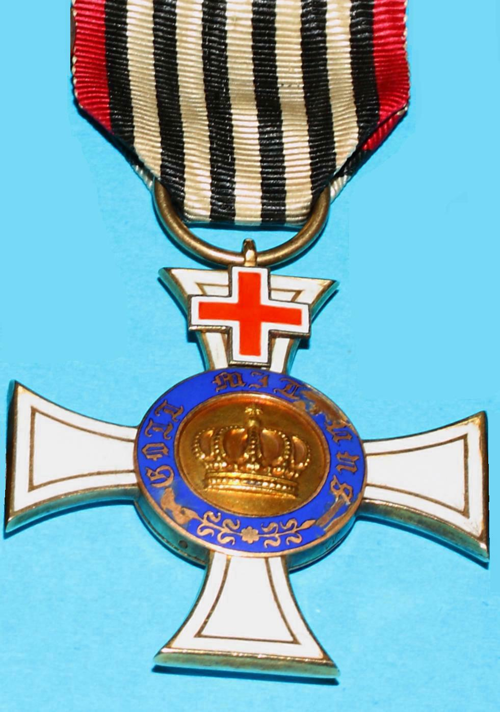 Prussian Order of Crown 3rd Class with Cross of Geneva given after Franco-Prussian War normally to doctors for Meritorious Service